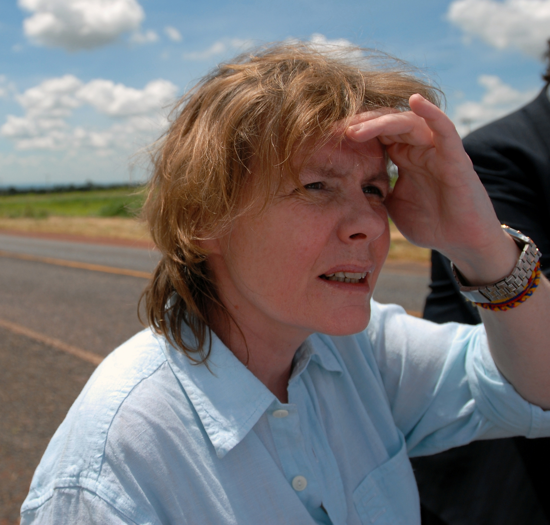 Brasília, 2009 - Fred Vargas, French writer, anthropologist and activist